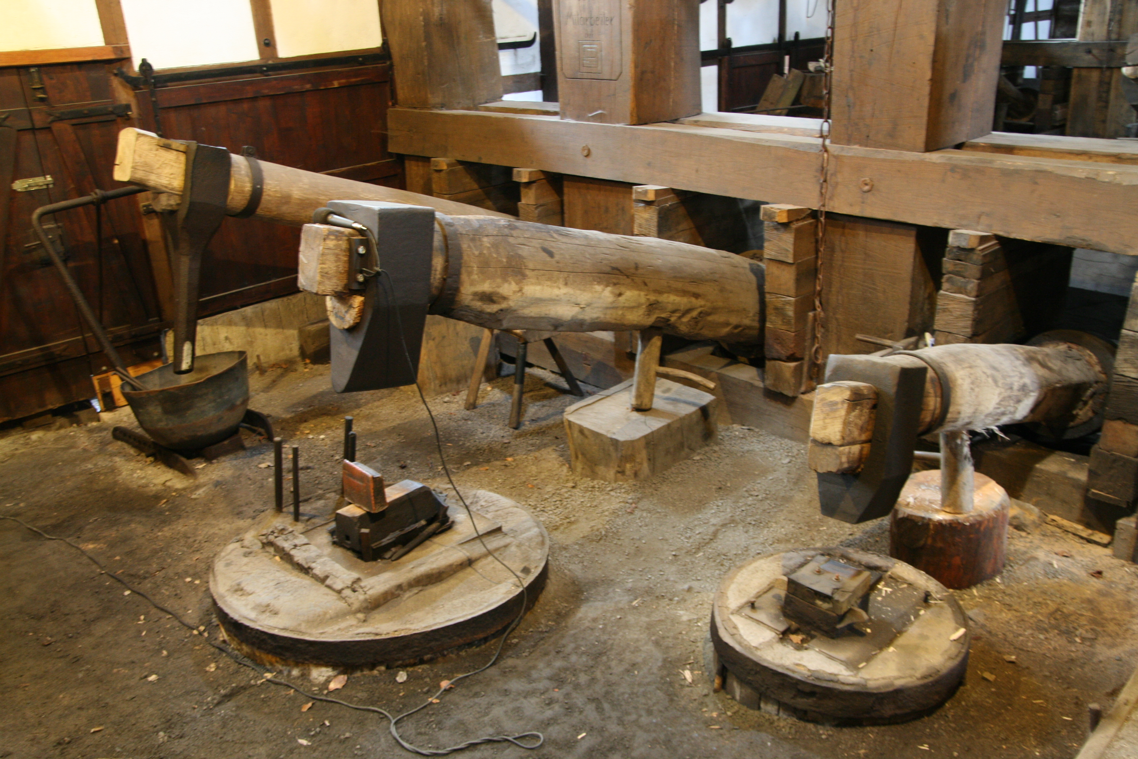 Tobiashammer in Ohrdruf, Germany. Front side of the hammers.